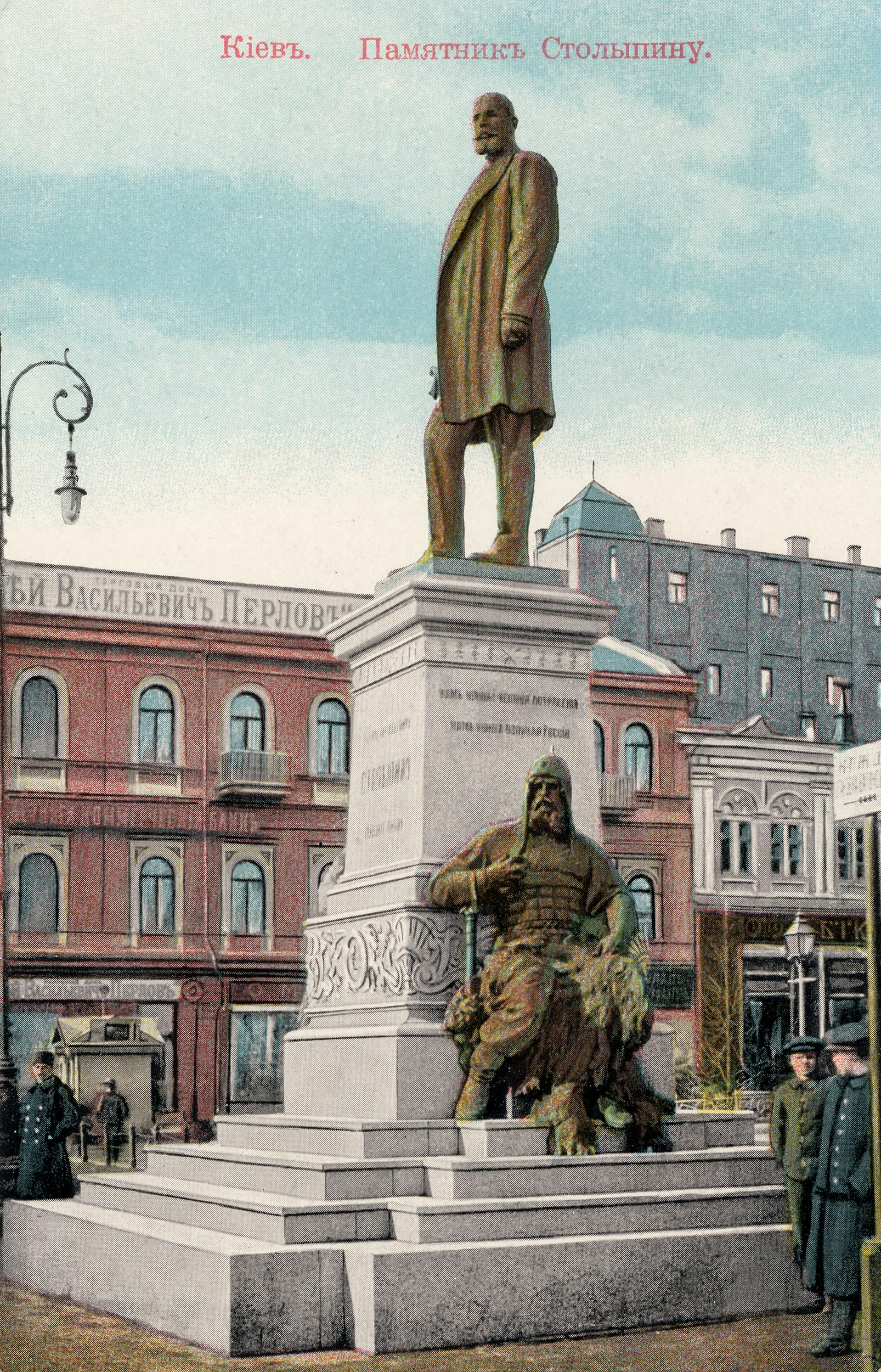 Statue of Pyotr Stolypin that was standing outside the Kiev City Duma in Kiev, Russian Empire (now Ukraine) in the 1910s.